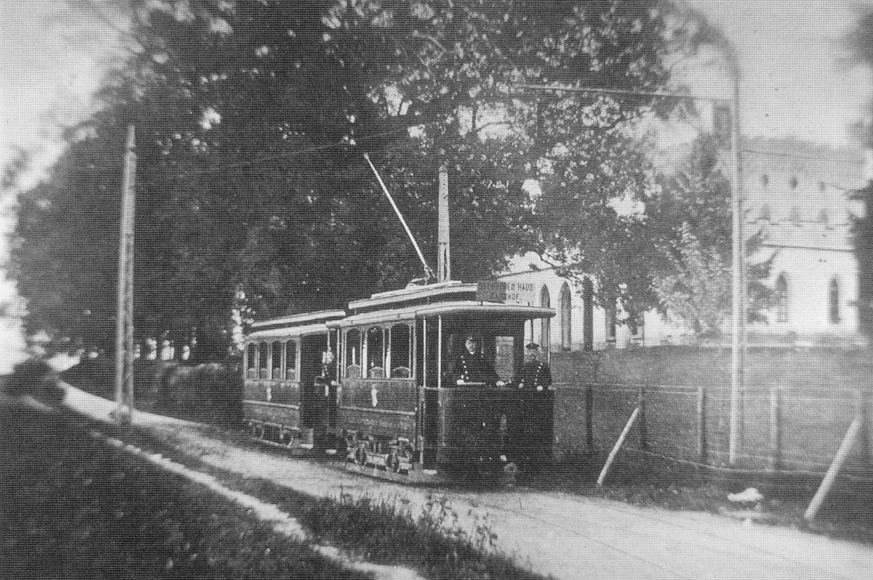 Bad Homburg Tramway in Dornholzhausen near Bad Homburg at the Gotisches Haus, Germany, 1900